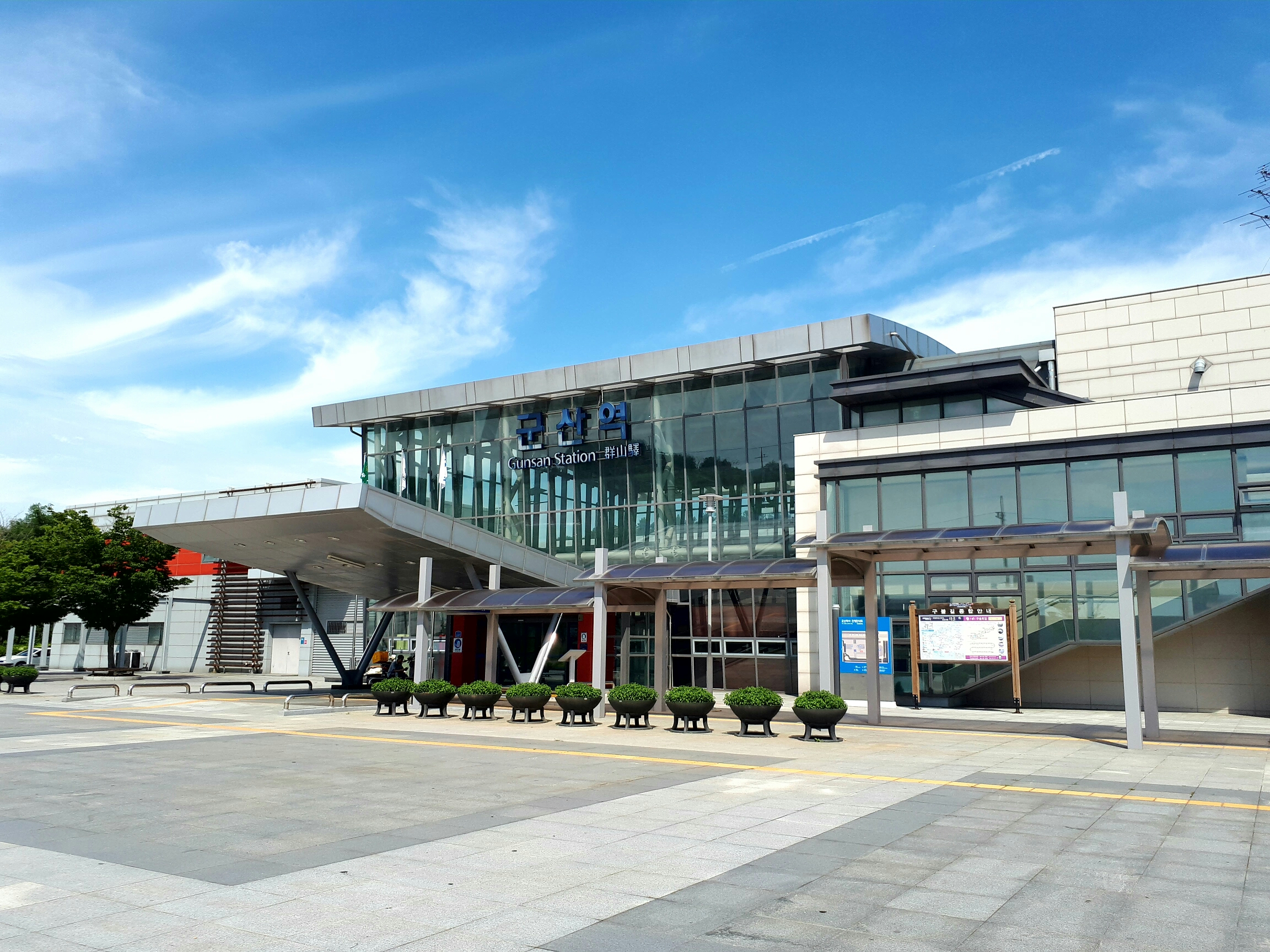 Gunsan Station. Naeheung2-gil, Gunsan City, Jeollabuk-do.